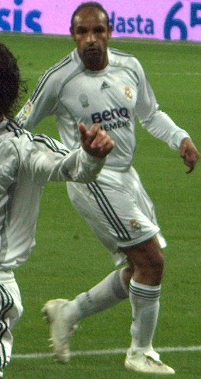 Emerson Ferreira da Rosa. Image cropped from original at flickr.